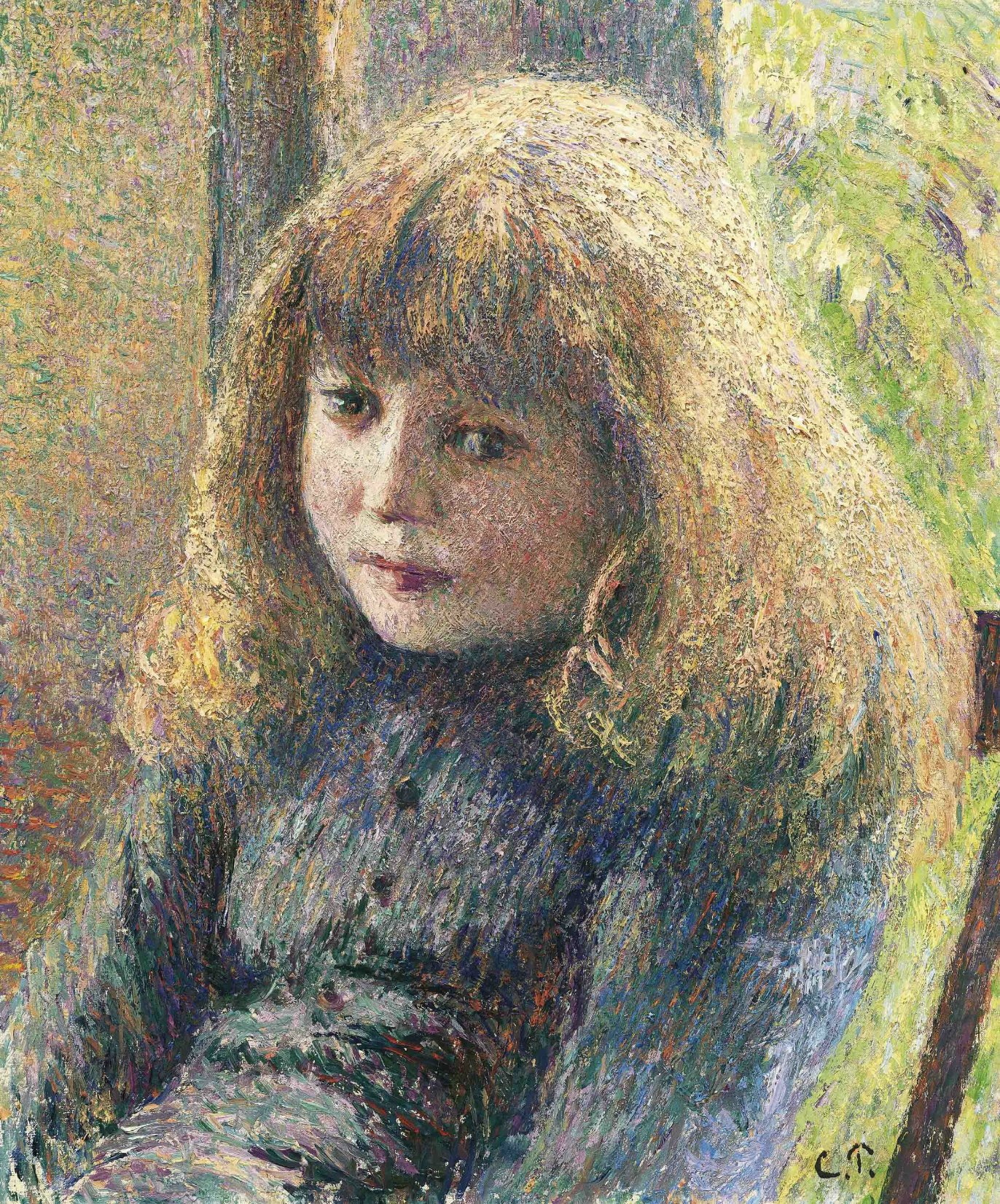 Paul-Emile Pissarro oil on canvas 41 x 33.6 cm circa 1890 signed l.r.: C.P